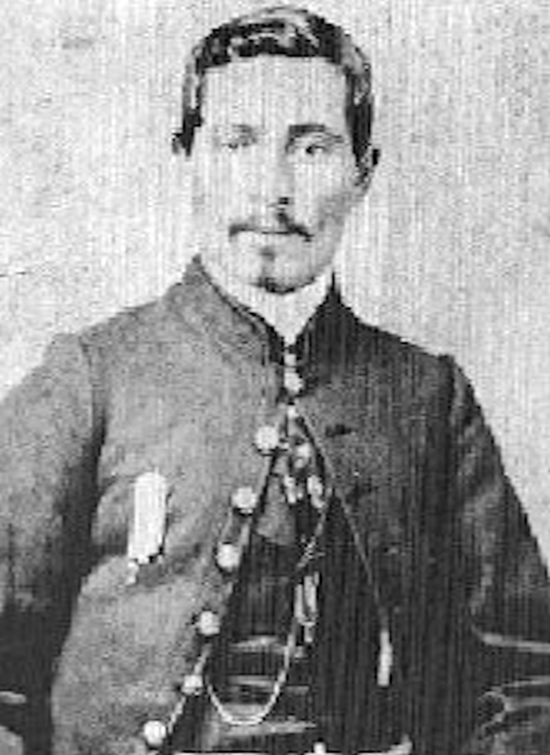 Medal of Honor winner David Orbansky